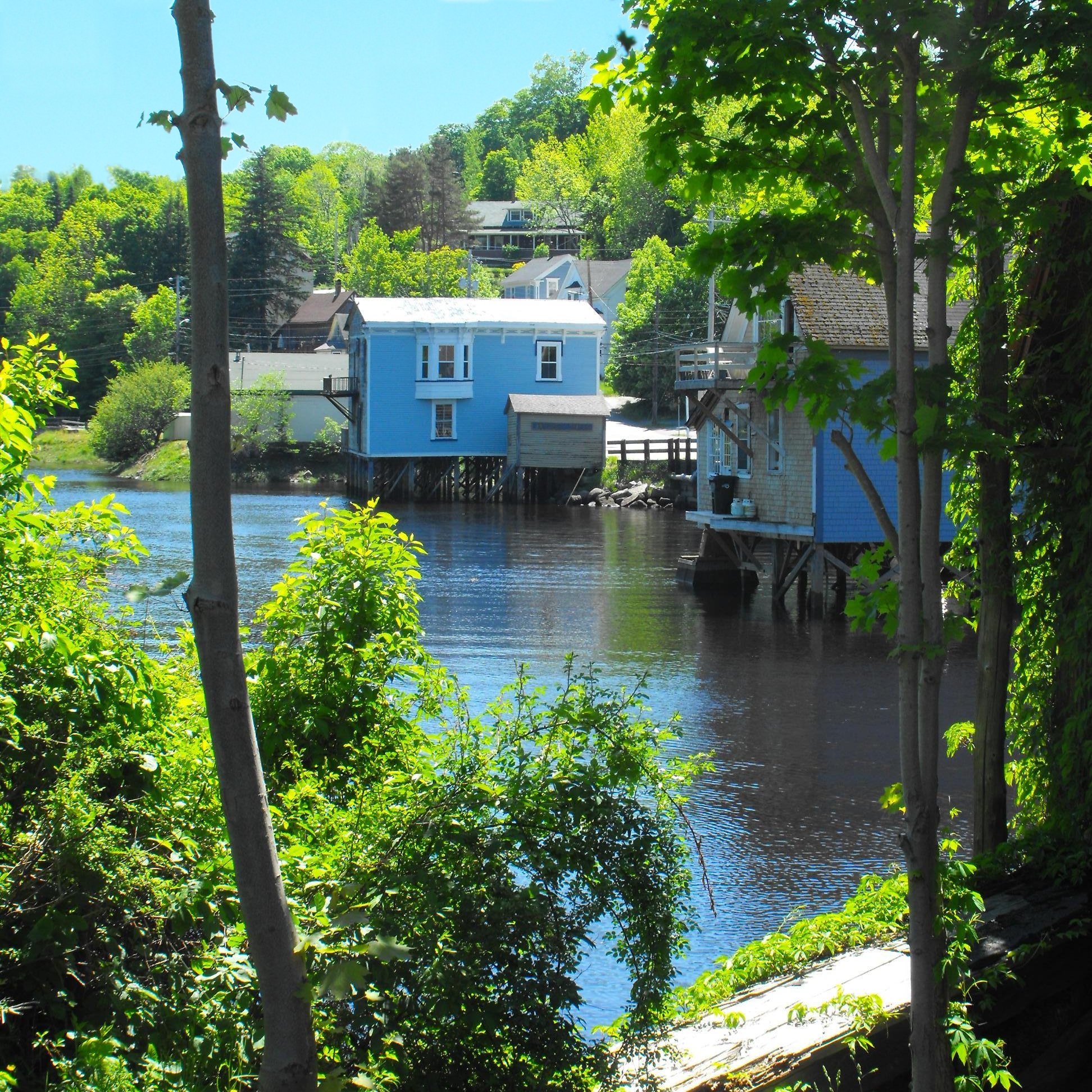 Bear River flows under several commercial buildings built on stilts in the Nova Scotia community that bears the same name.